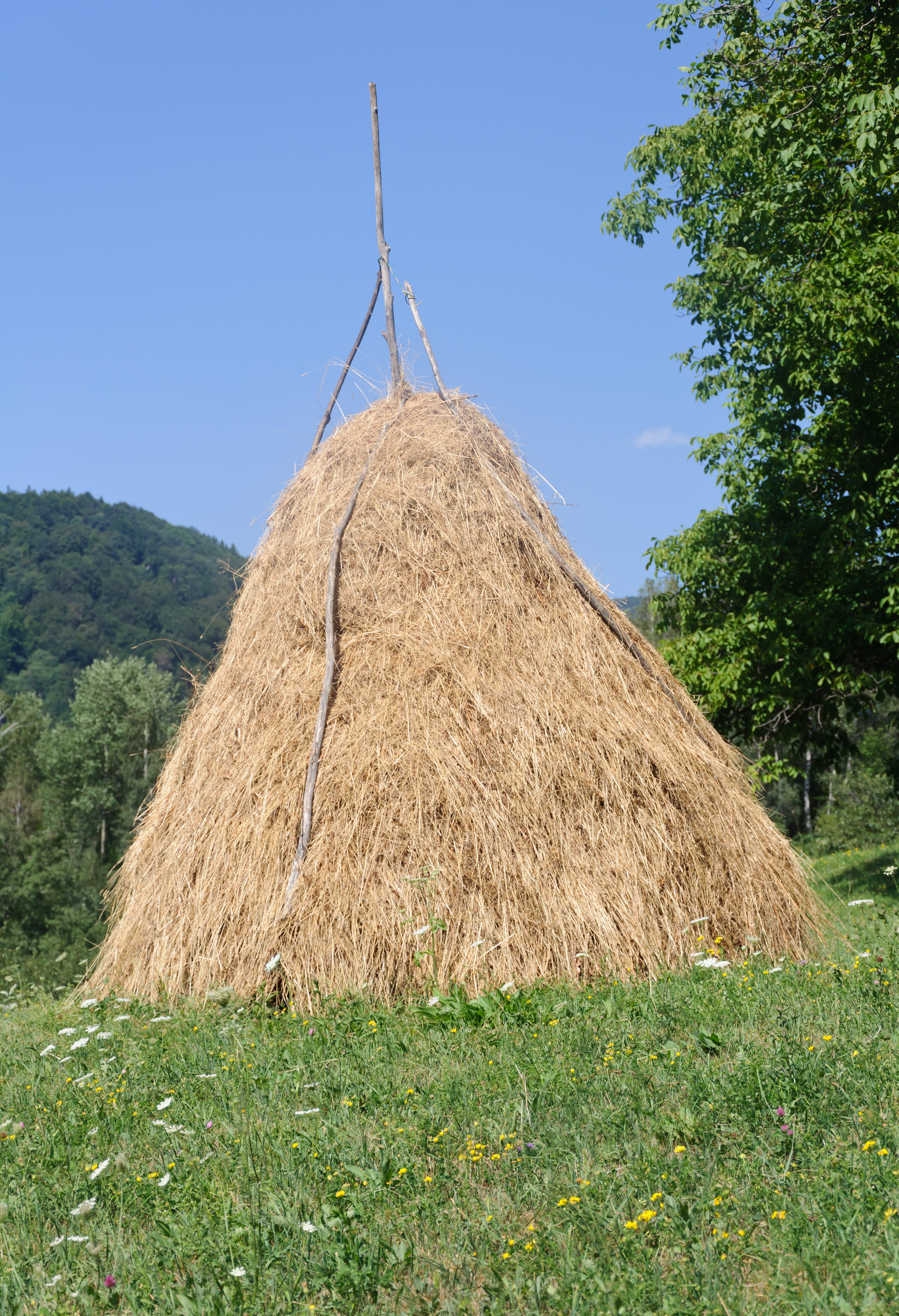 Haystack in Bran, Romania.